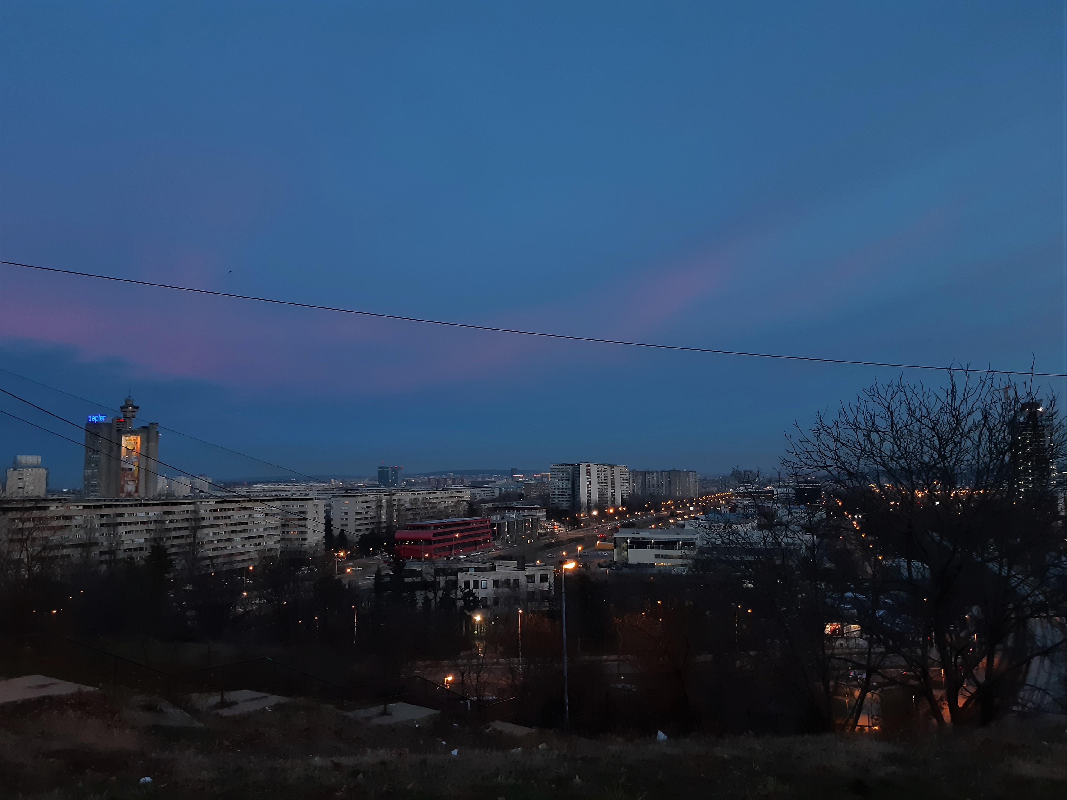 View of the manicipality of New Belgrade,Block 49, Belgrade